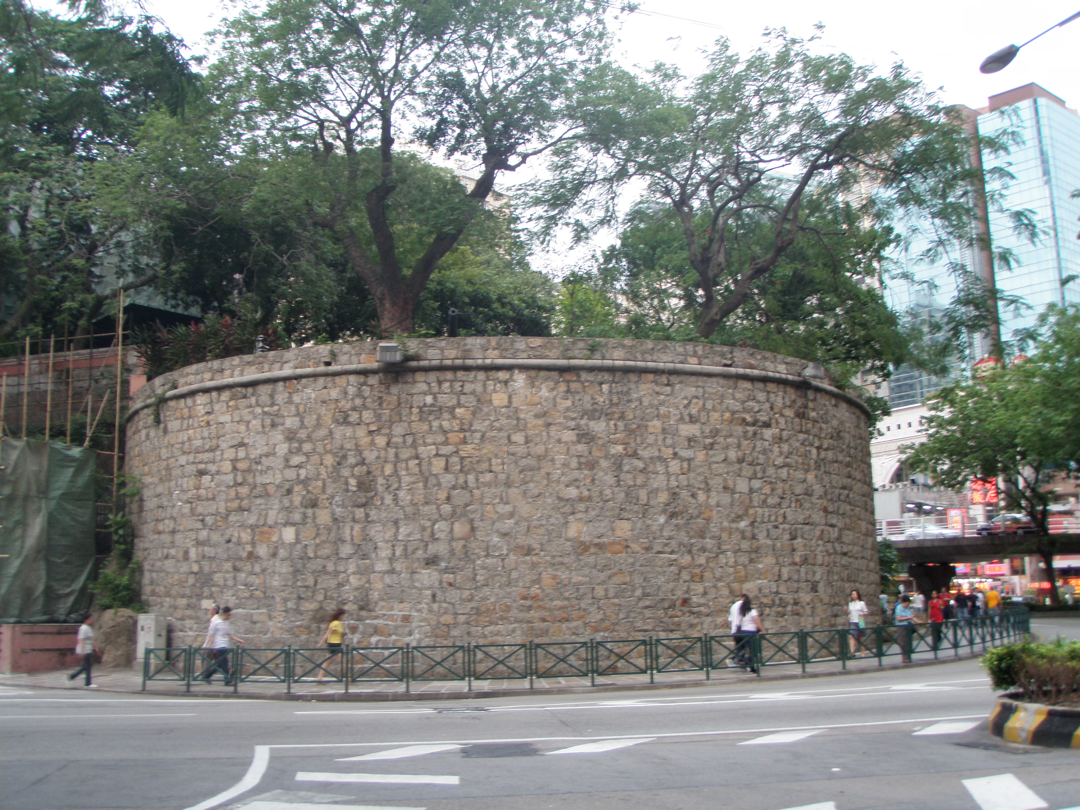 St. Francisco Fortress